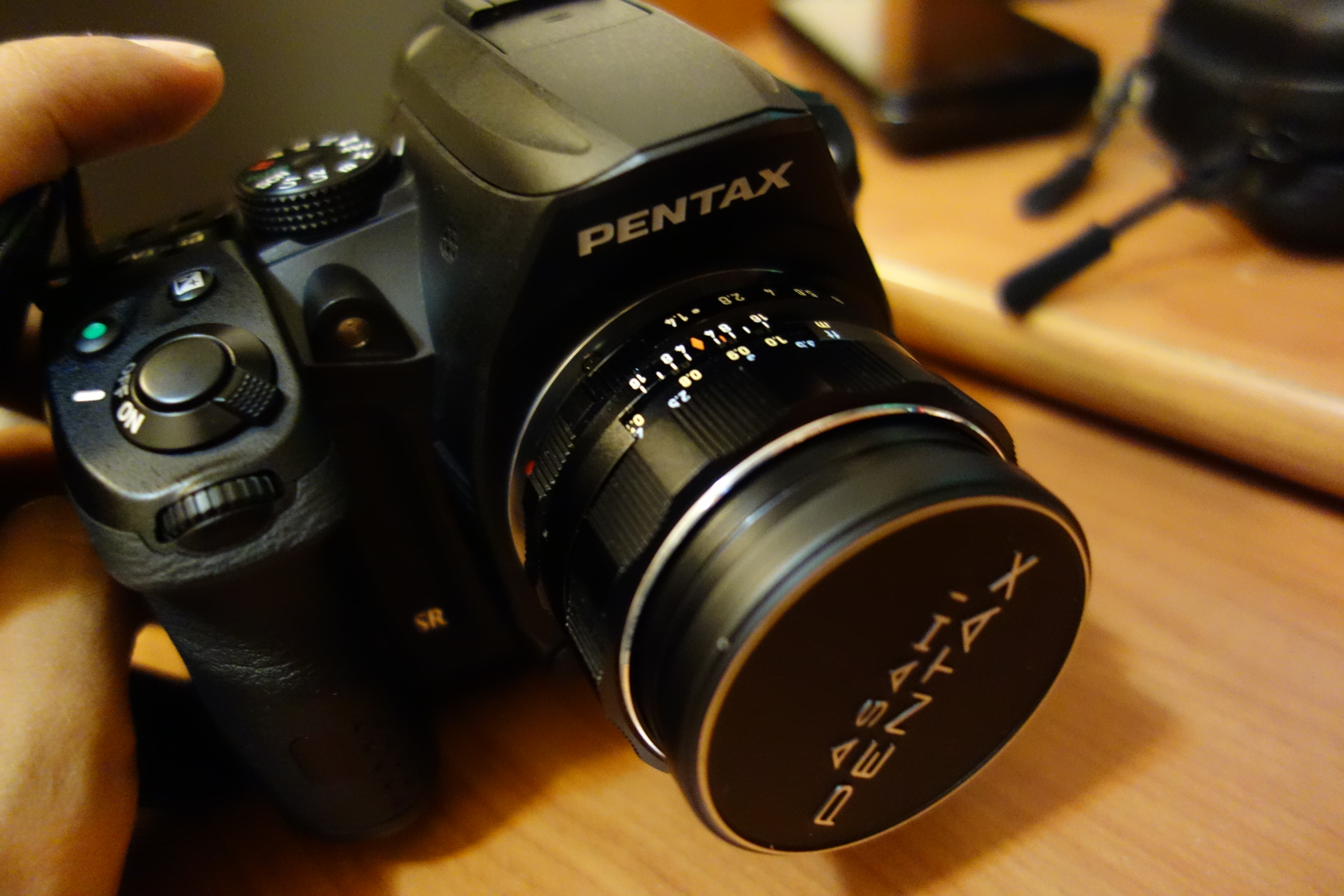 Pentax K-30 with a Super-Takumar 50 mm f1.4 lens (top-side view)